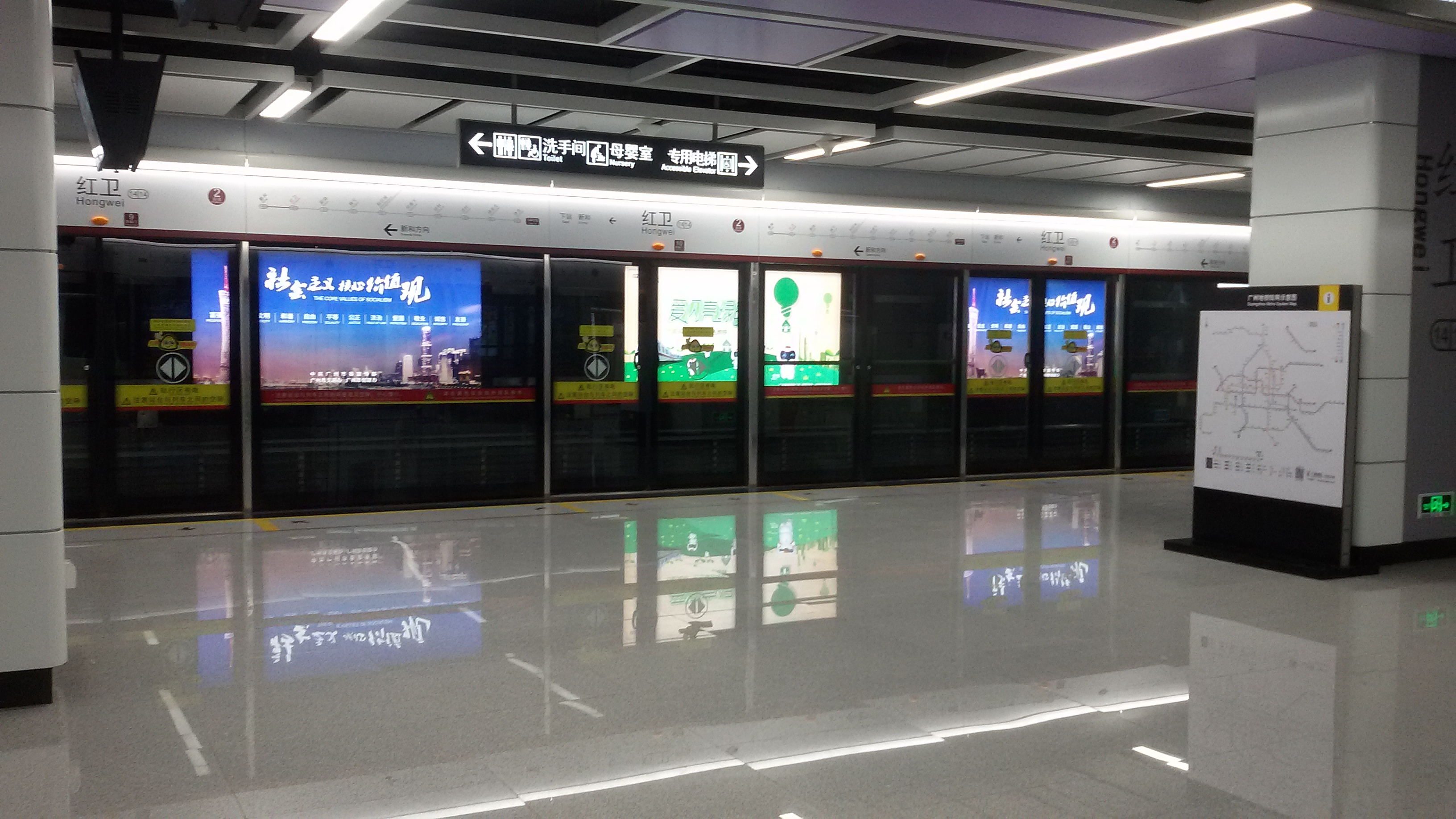 Station Platform for Hongwei Station in Guangzhou Metro.